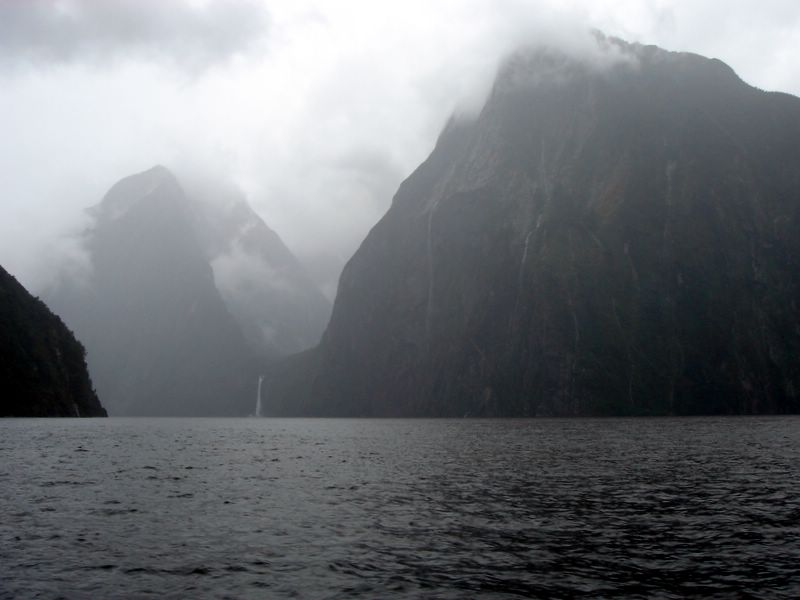 A photo of Milford Sound in New Zealand. Taken during my honeymoon on a foggy, rainy day. A large waterfall can be seen in the center of the image as well as many smaller ones trickling down the cliff faces.